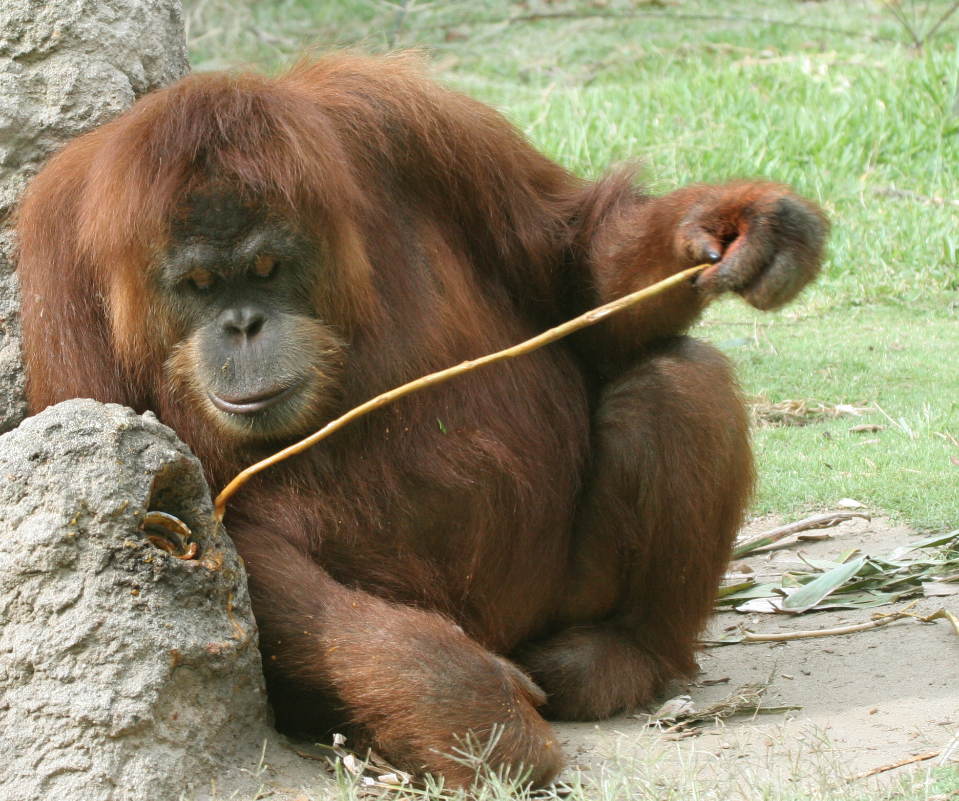 Orangutan at the San Diego Zoo using precision grip to dip for orange-juice concentrate.